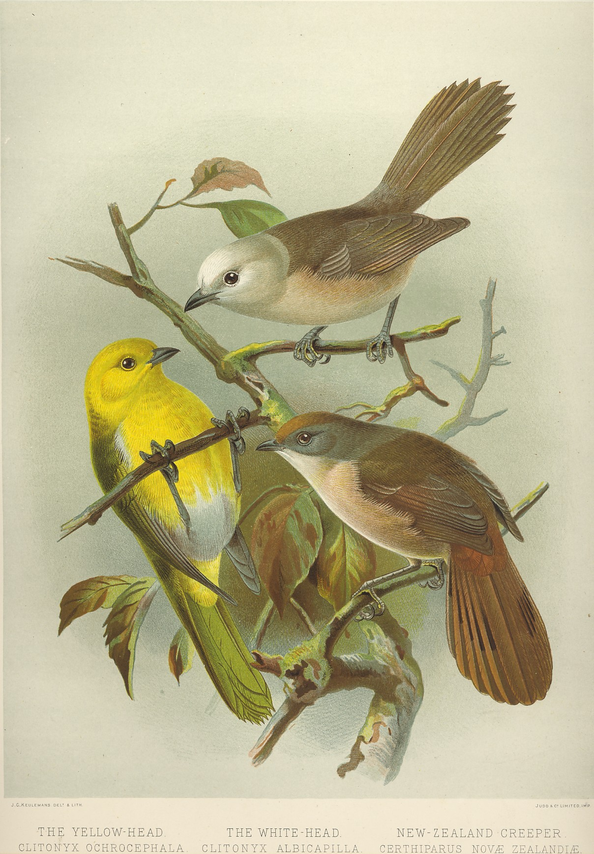 Top - Whitehead/Pōpokotea (Mohoua albicilla). Bottom left - Yellowhead (Mohua ochrocephala). Bottom right - Brown Creeper (Mohoua novaeseelandiae).